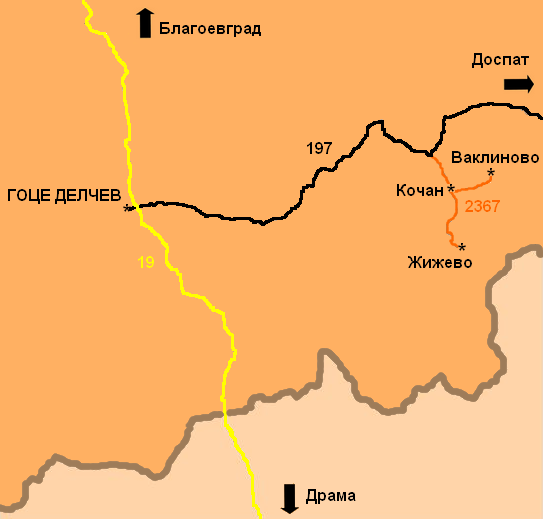 Map which shows the location of the villages Kochan, Vaklinovo and Zhizhevo.